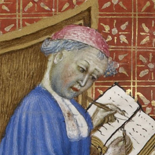 First page of the book "Traité de l'espère". The miniature represents Nicole Oresme busy at his studies, with an armillary sphere in the foreground.